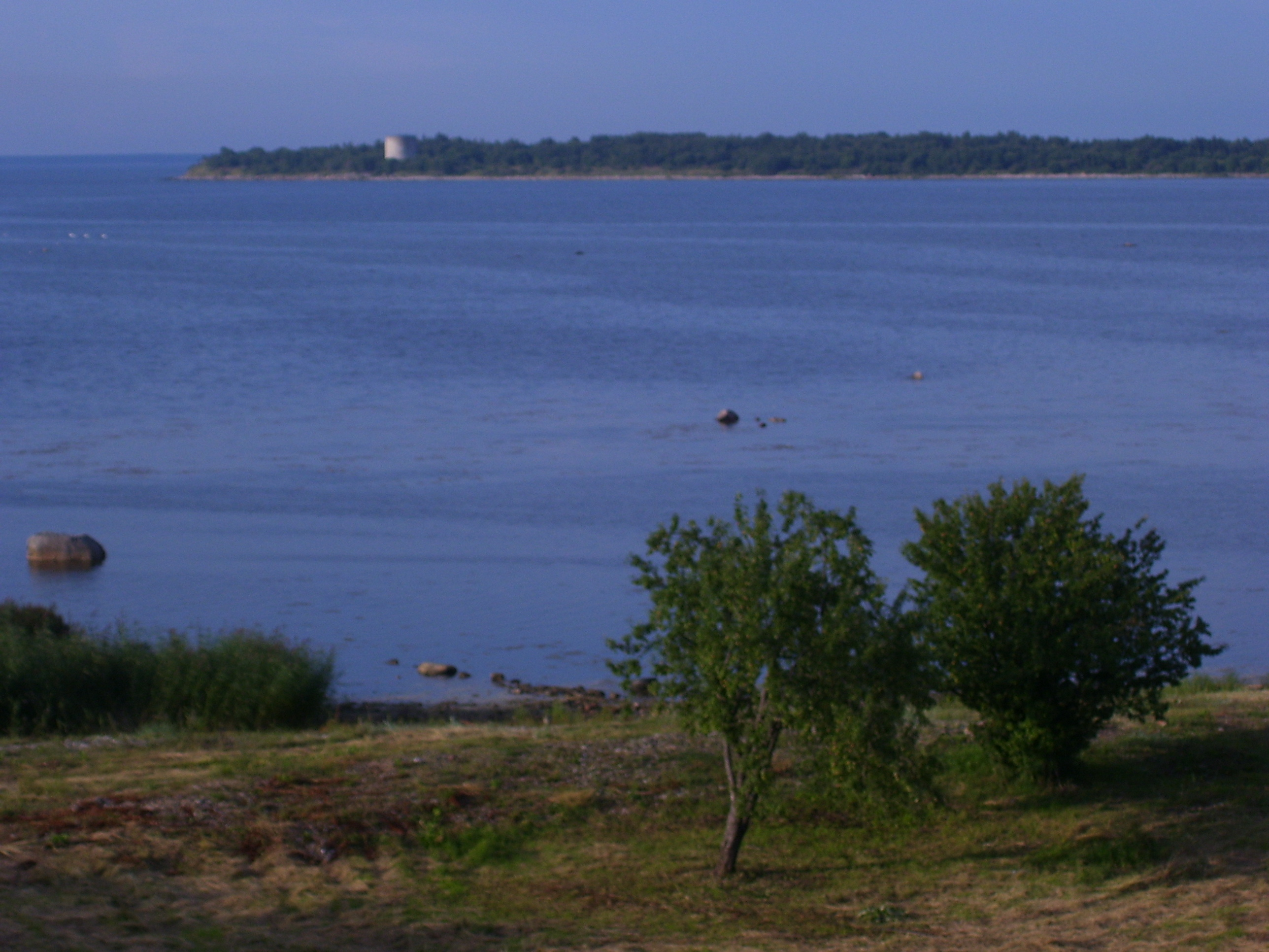 The peninsula of Paljassaar, view from the peninsula of Kopli over the bay of Paljassaar.